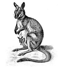 Standard Event System character depiction